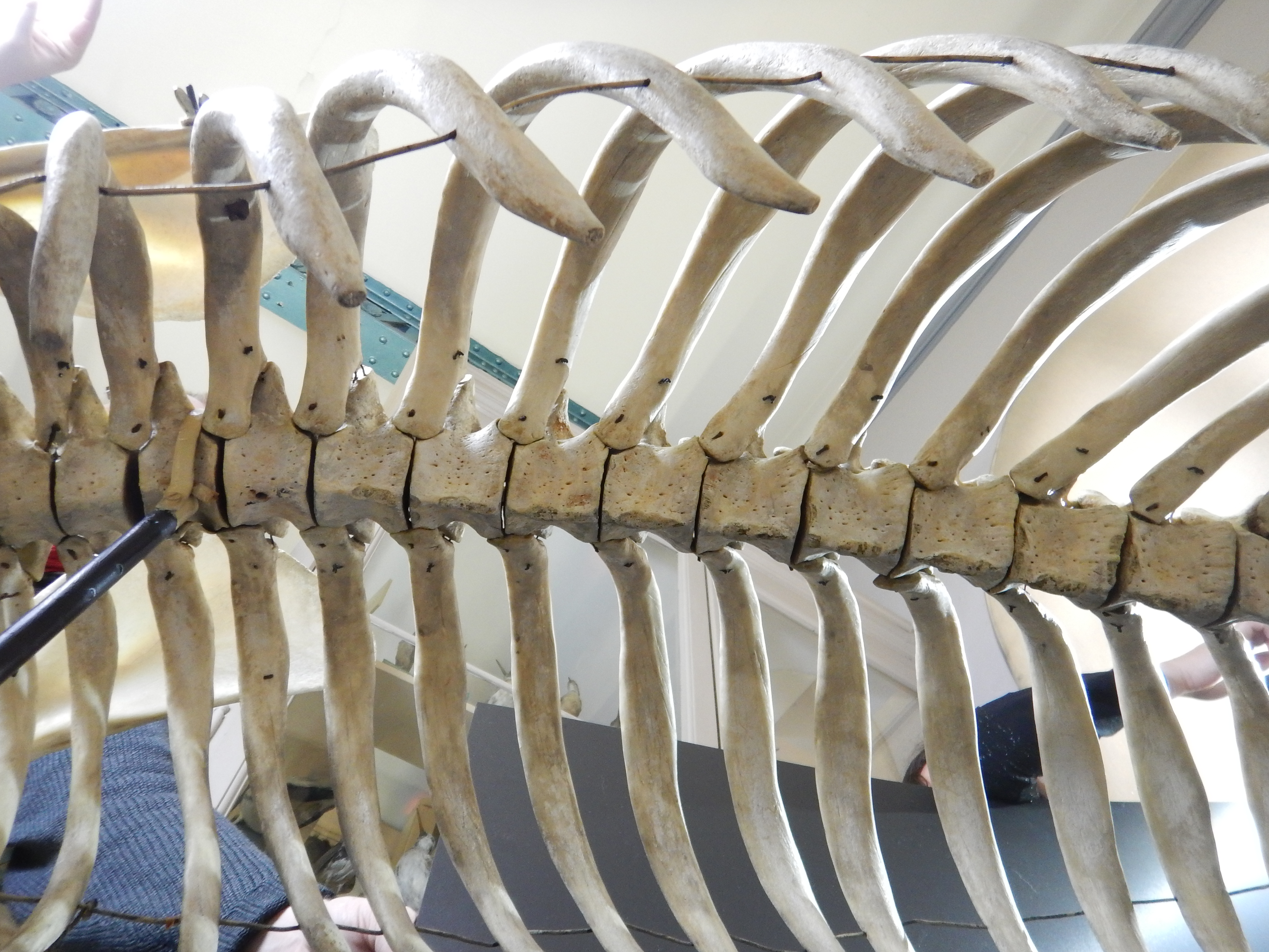 Skeleton of manatee, musée d'histoire naturelle de Lille.